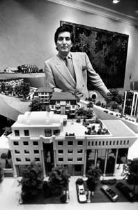 Bernard Nicod